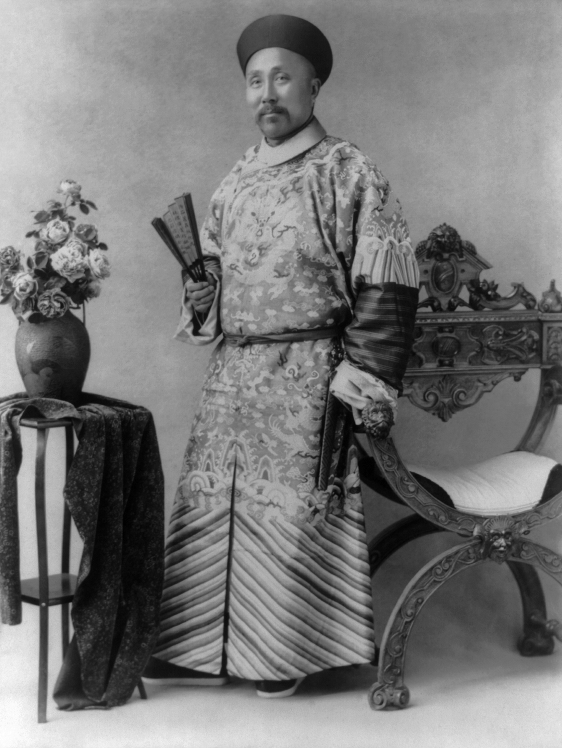 Wu-Ting-Fang - Chinese minister, full-length, standing